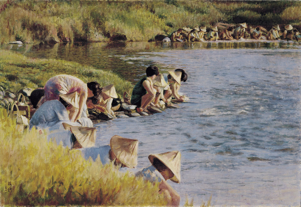 Li Mei-Shu 1981 “Launder by the Riverside” 80 x 116.5 cm 中文（台灣）: 李梅樹 1981年《清溪浣衣》80 x 116.5公分，油彩。